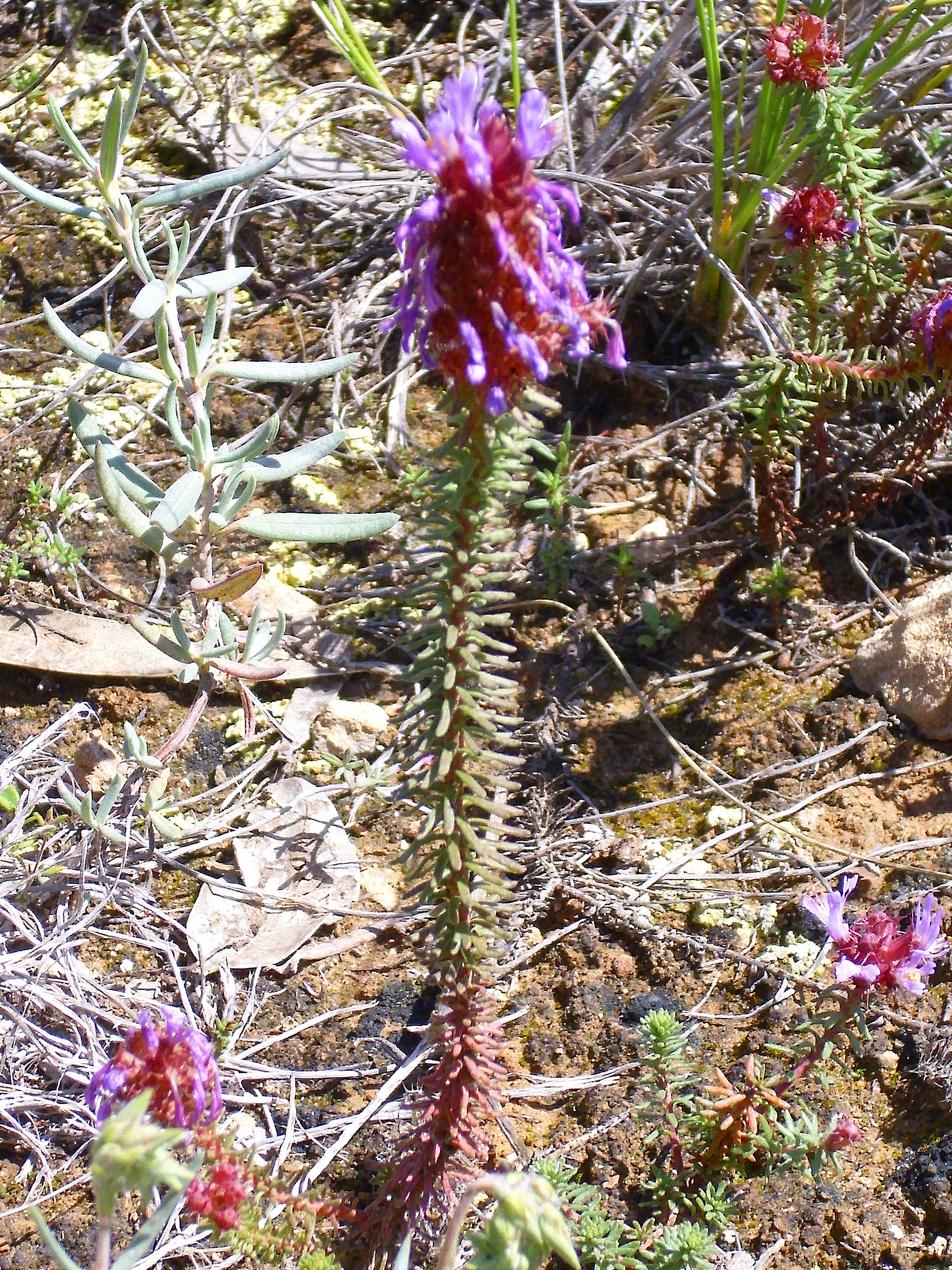 Coris monspeliensis habit, Parque Natural de las Lagunas de La Mata y Torrevieja, Alicante, La Mata, Spain.